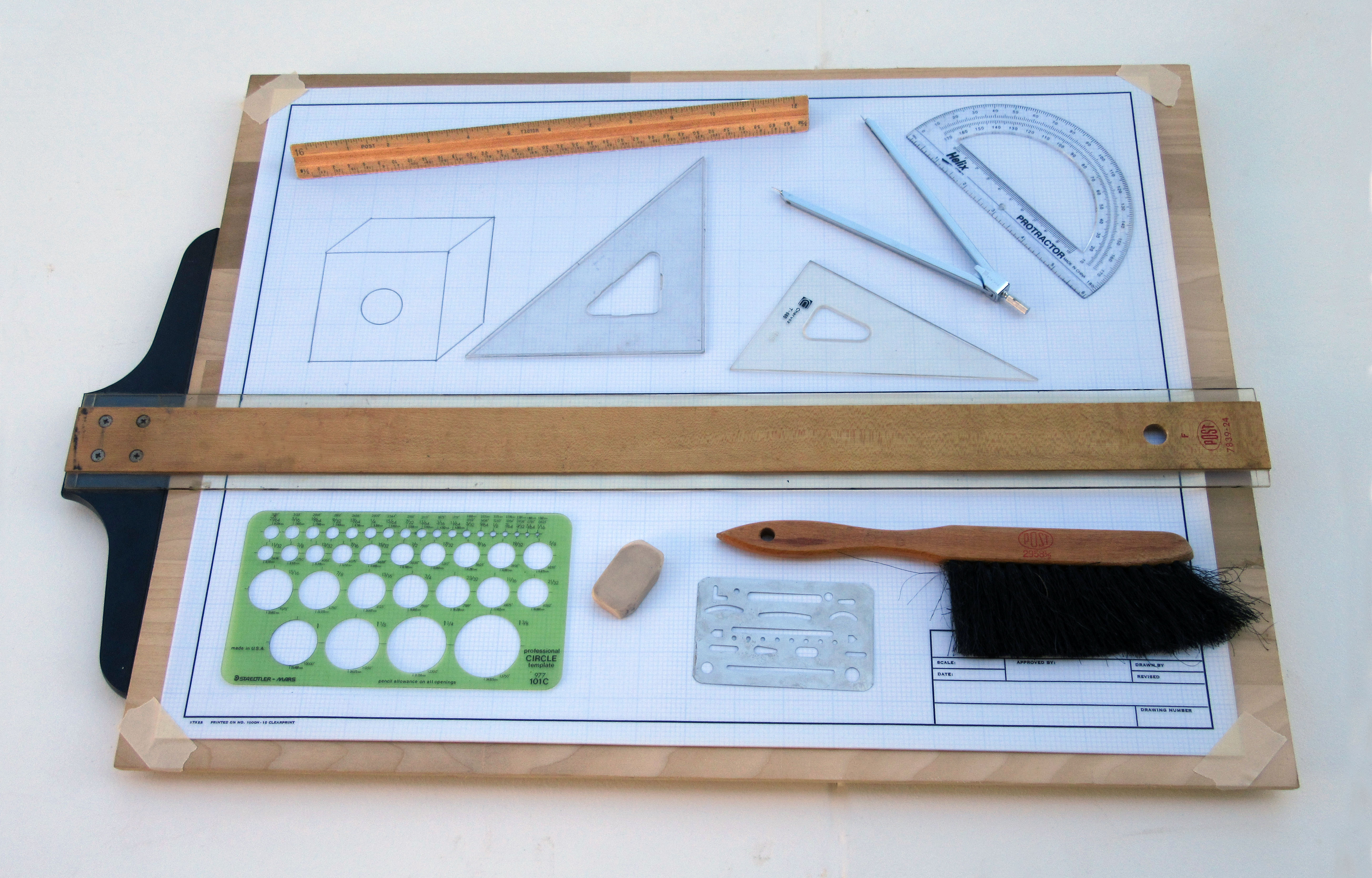 Drafting board with T Square and drawing tools.